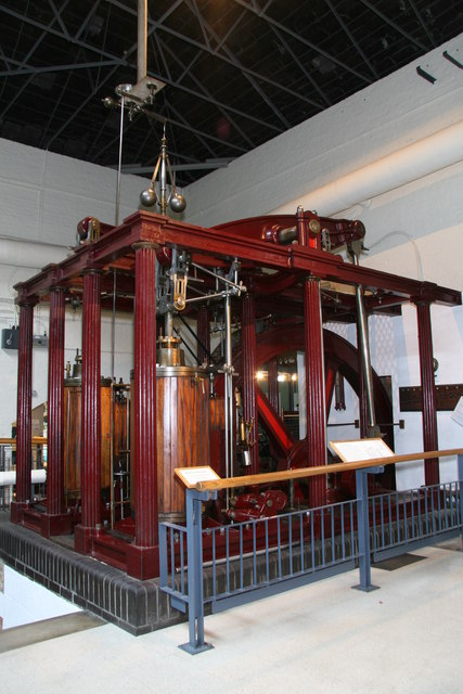 Kew Bridge Steam Museum, Dancer's End beam engine A twin six-column beam engine by J C Kay of Bury, 1866.